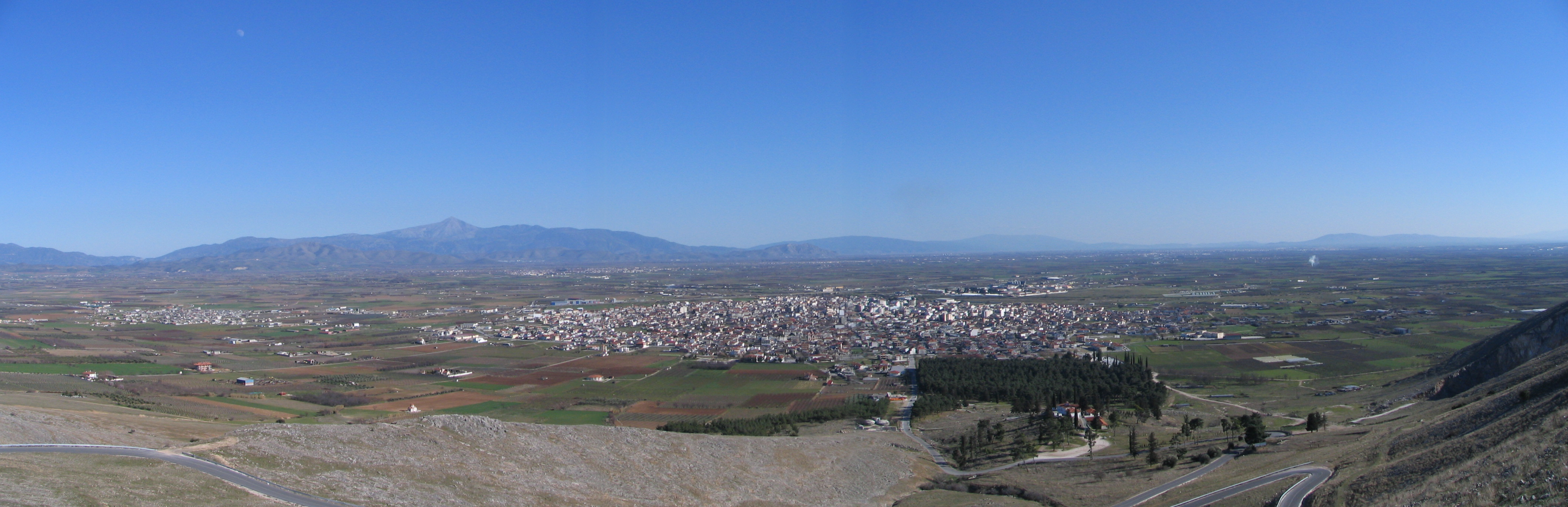 A wide view of Tirnavos city and Thessaly 's plain